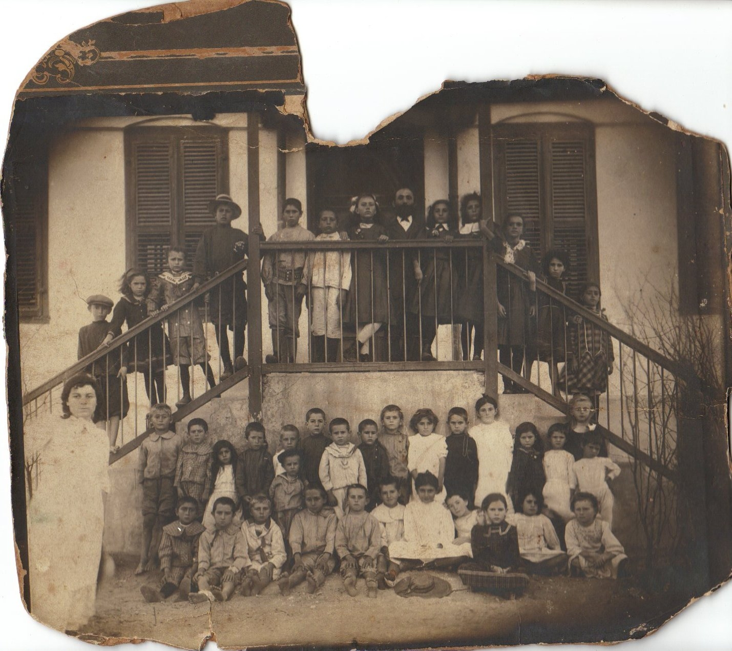 School at Nes-ziona